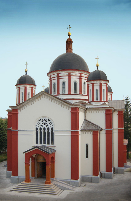 Saborna crkva in Kragujevac